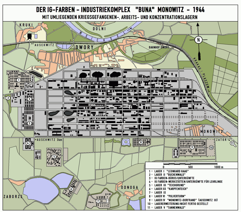 I.G. Farbens Buna-Werke industrial complex near Dwory, Poland. Diagram shows Monowitz and various subcamps as of 1944.